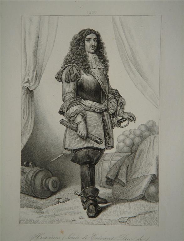 ArtistUnknownTitle